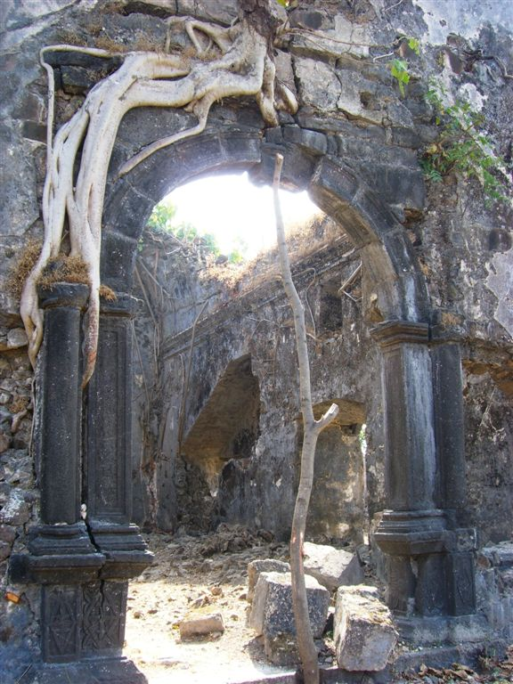 This used to be the entrance to Korlai fort, Maharashtra, India